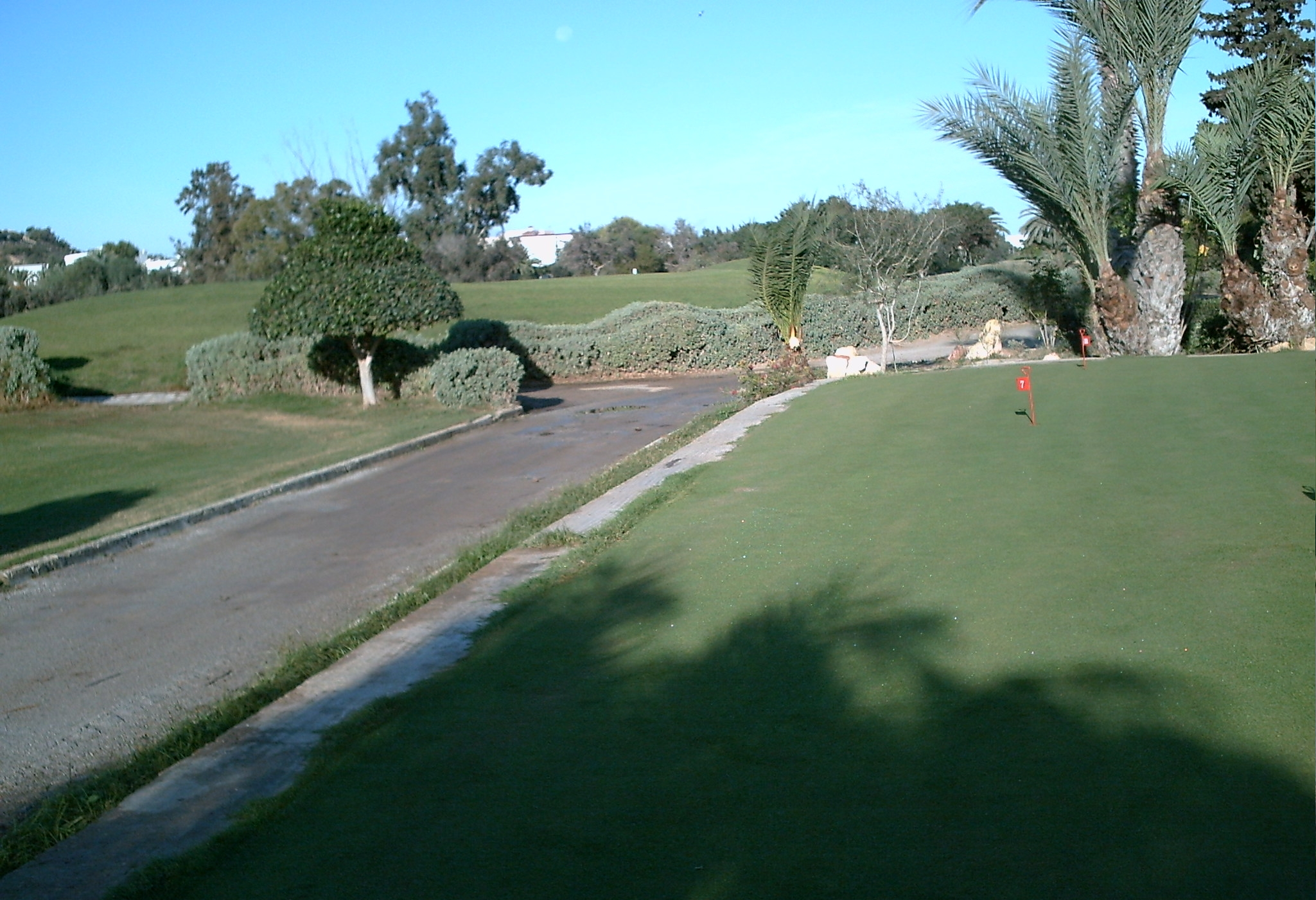 Golf course in Port El-Kantaoui, Tunisia